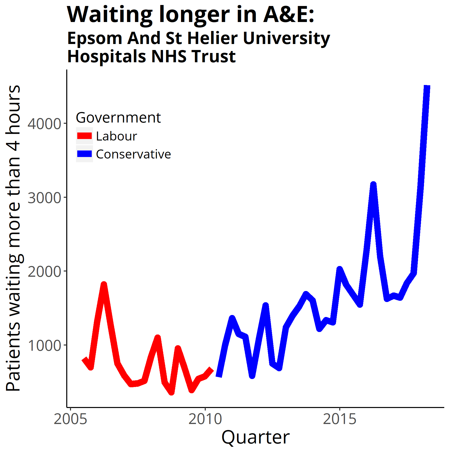 Four-hour target in the emergency department quarterly figures from NHS England Data from